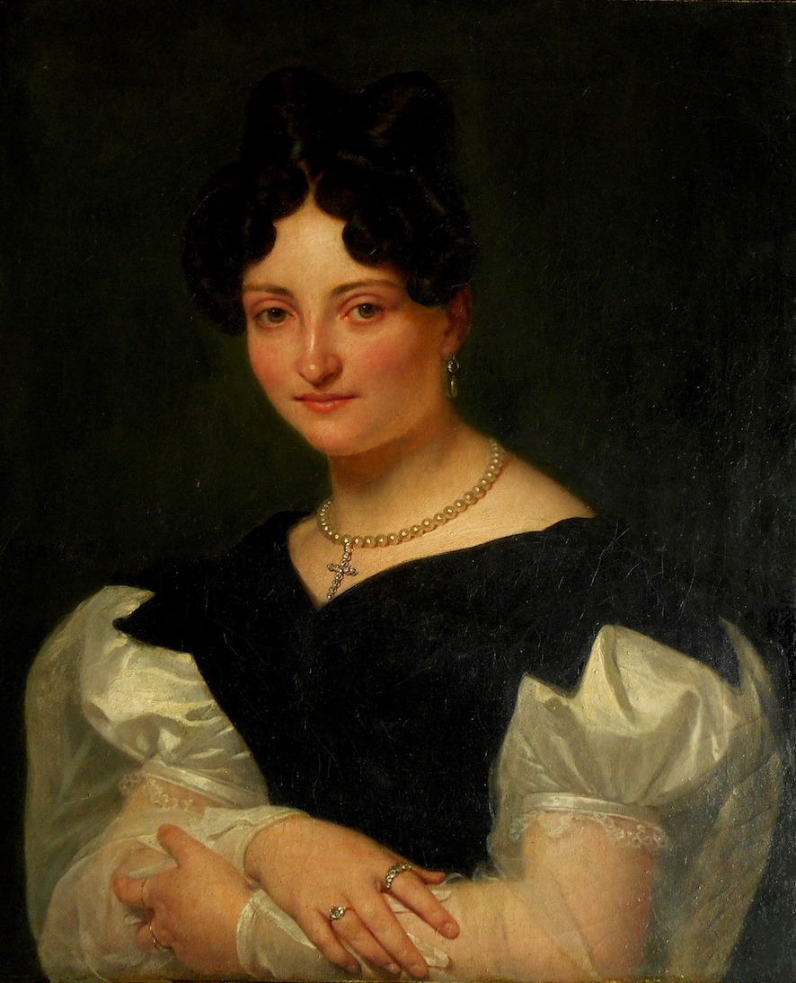 Jean-Pierre Granger, Portrait of Mélanie Mahler, née Froment-Meurice, 1830